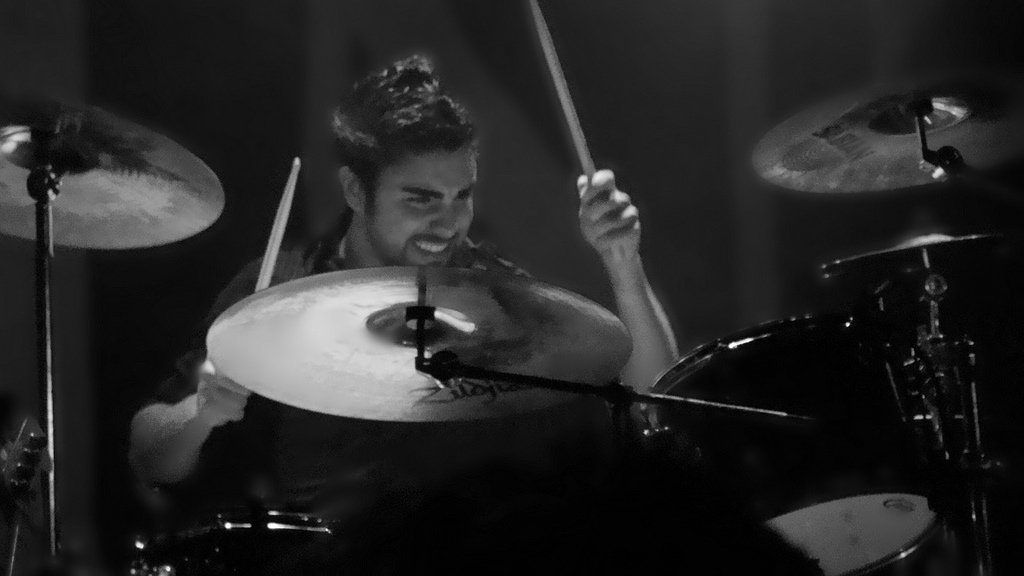 Victor Ribas is the drummer of the band HURT. live performance